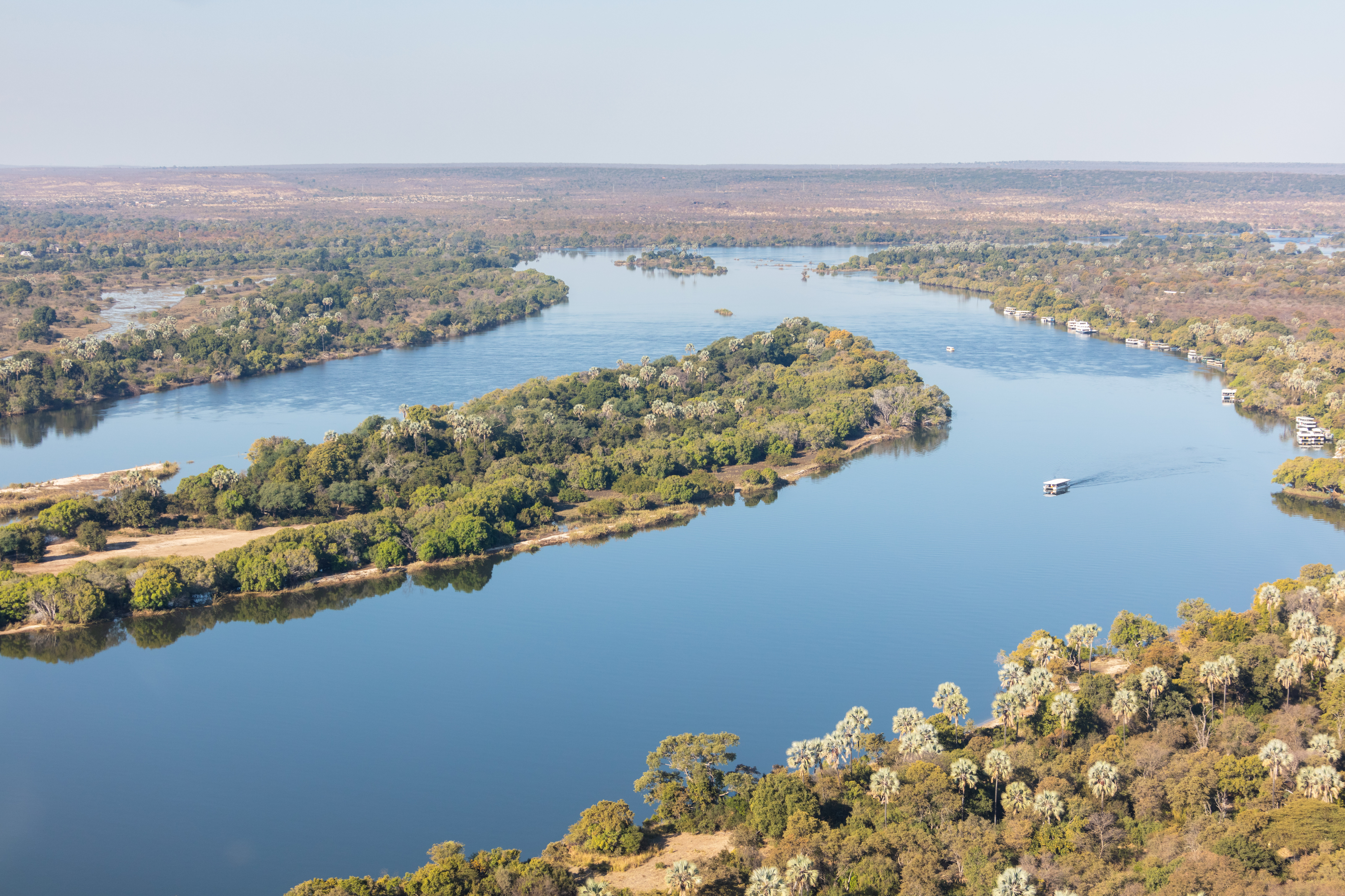 Zambezi River, Zambia-Zimbabwe